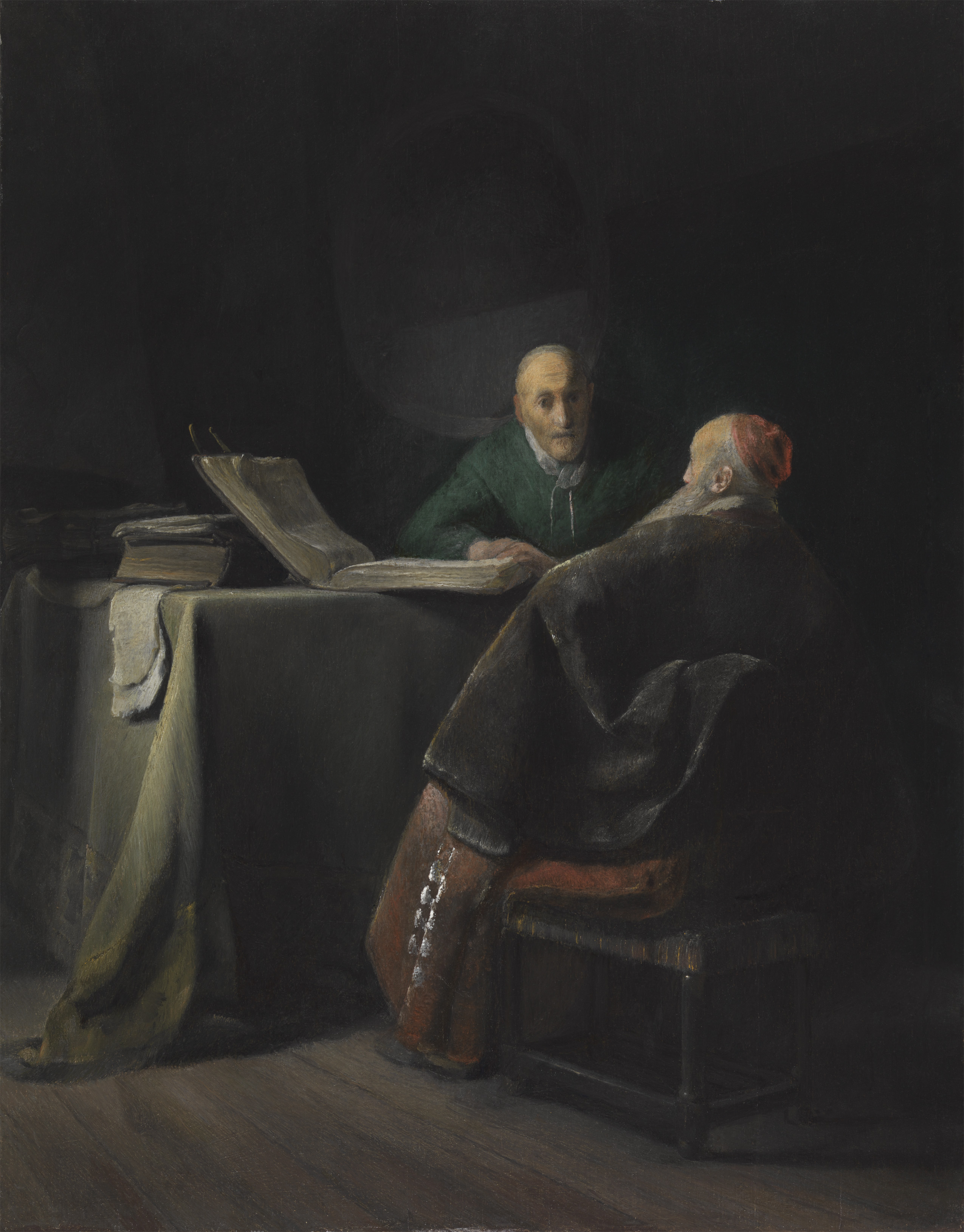 Two Old Men Disputing (“St. Peter and St. Paul”), formerly attributed to Rembrandt, later seen as a copy from the 18th century. Now attributed to the circle around Jan Lievens and dated c. 1630